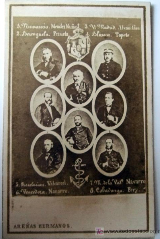 Possitiu "Hermanos Areñas", col·lecció privada.